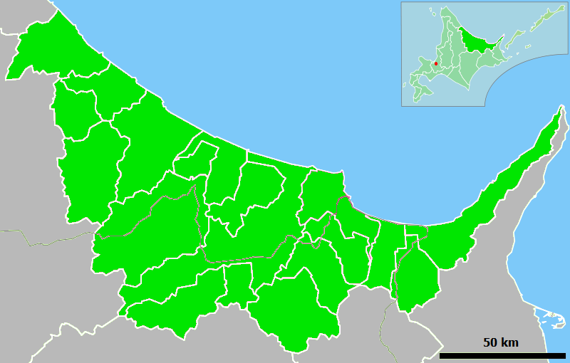 Map of the subprefecture Abashiri, Hokkaido, Japan